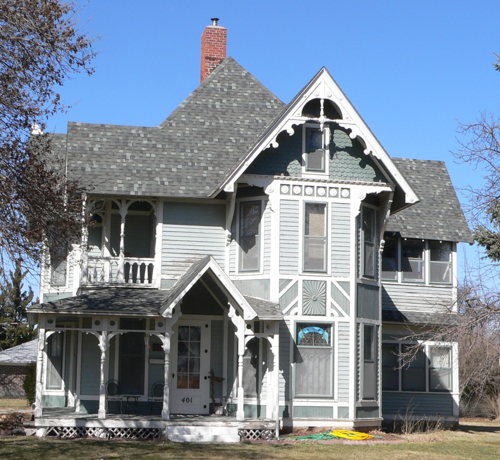 Ira Webster Olive House at 401 E. 13th Street in Lexington, Nebraska; seen from the south. The Queen Anne house was built in 1889; it is listed in the National Register of Historic Places.